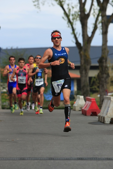 Roger Roca Dalmau during 2010 Spanish Duathlon Championchip.